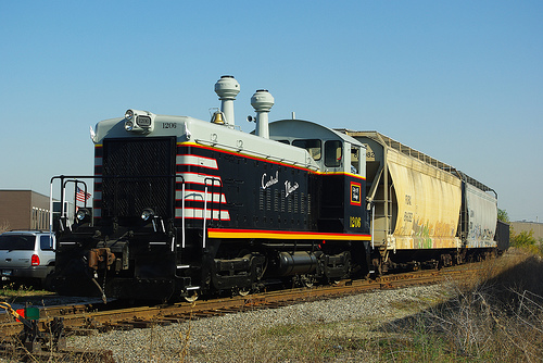 On its maiden run, Central Illinois Railroad's 1206 (SW9) rests atop the hill to Western avenue yard.